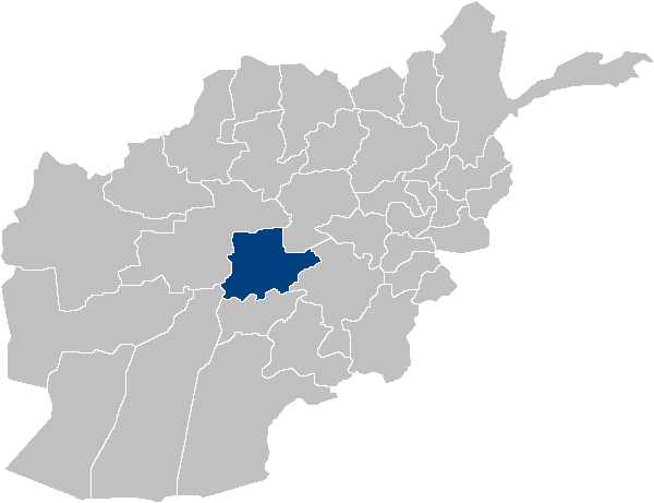 Location map for Daykundi Province in Afghanistan. Original map source: File:Afghanistan_provinces_blank.png